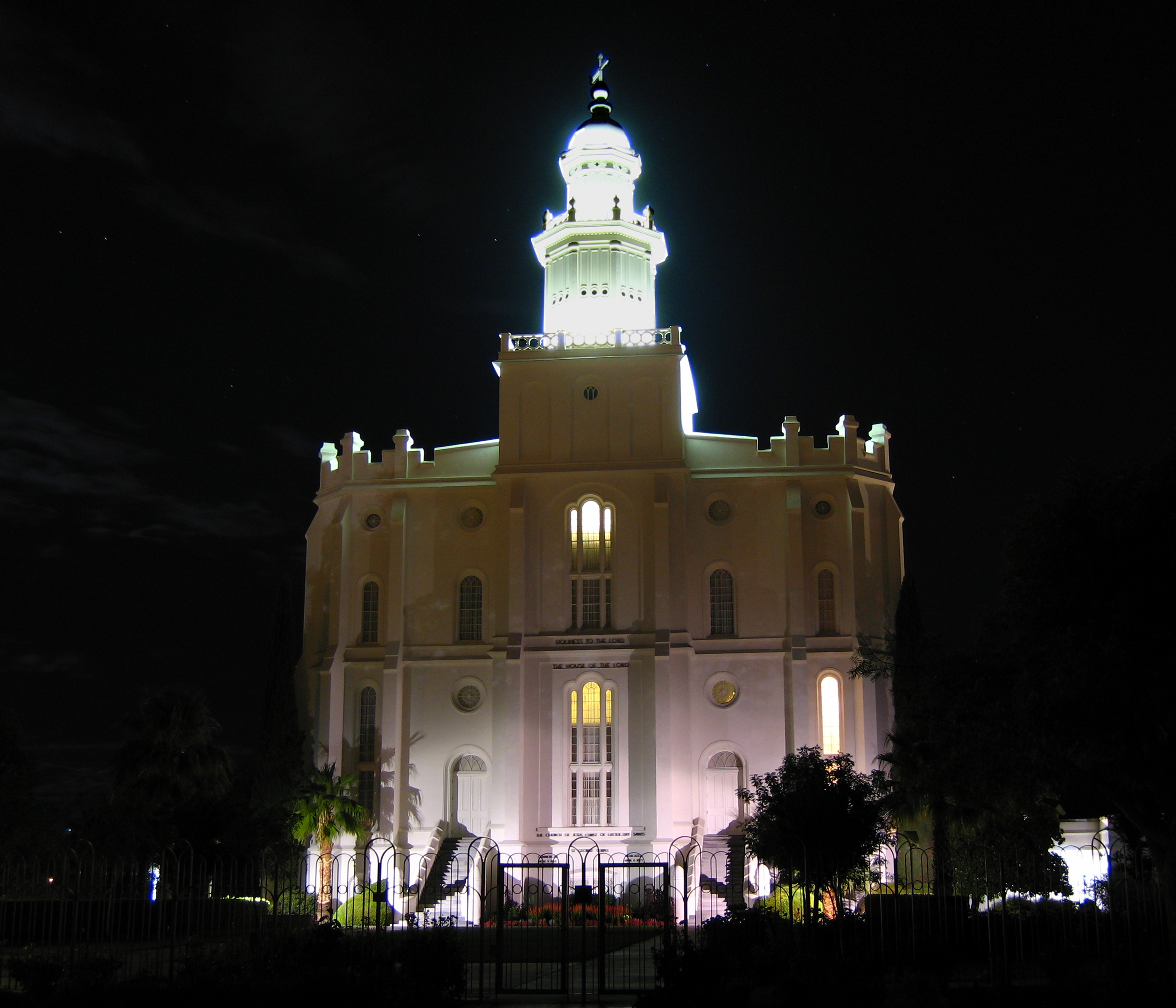 The St. George Temple of The Church of Jesus Christ of Latter-day Saints, in St. George, Utah, United States. Photo by Ricardo630 Ricardo630 04:46, 9 August 2006 (UTC)